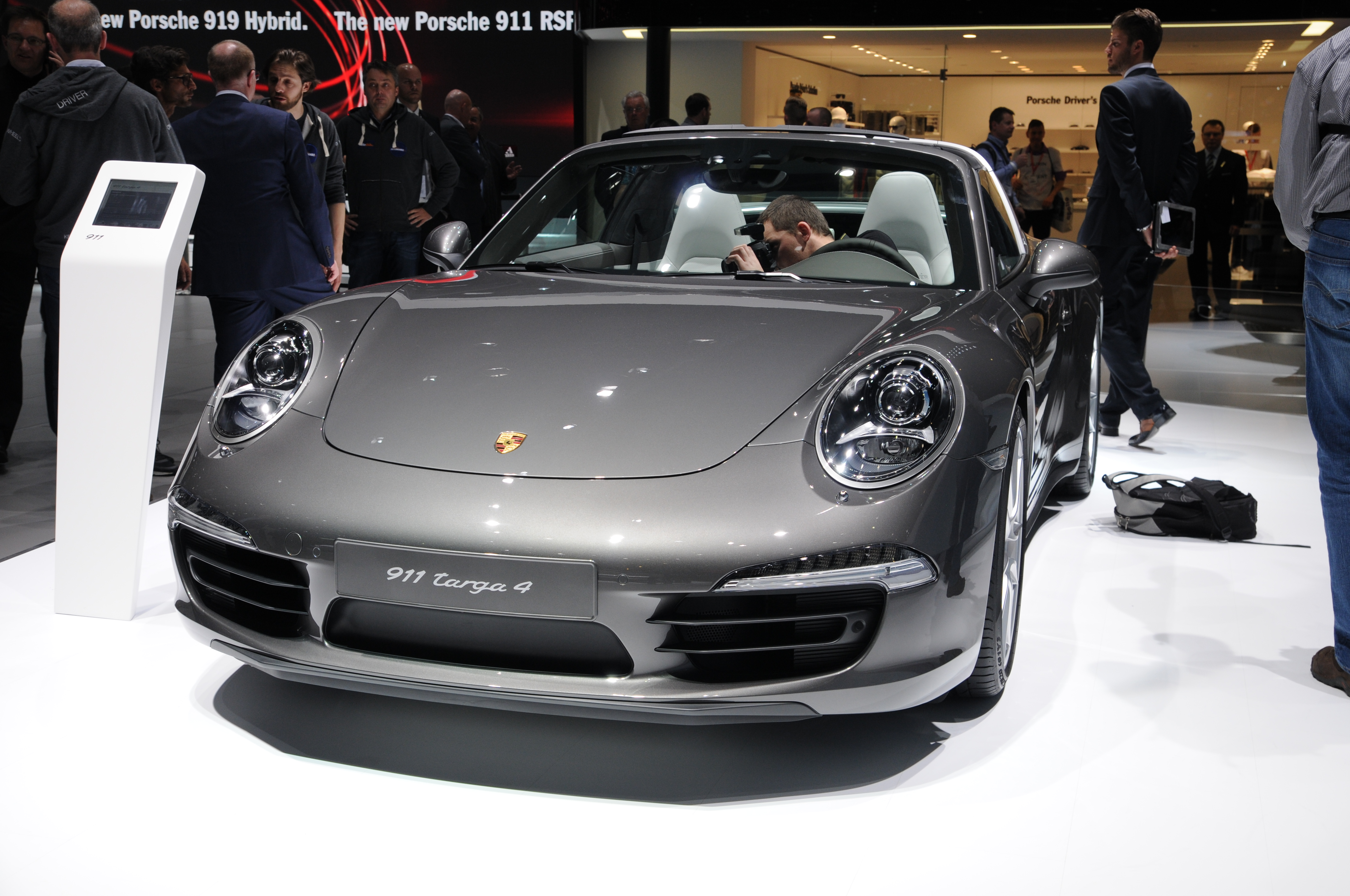 Geneva Motor Show 2014 (photo taken on the first press day)